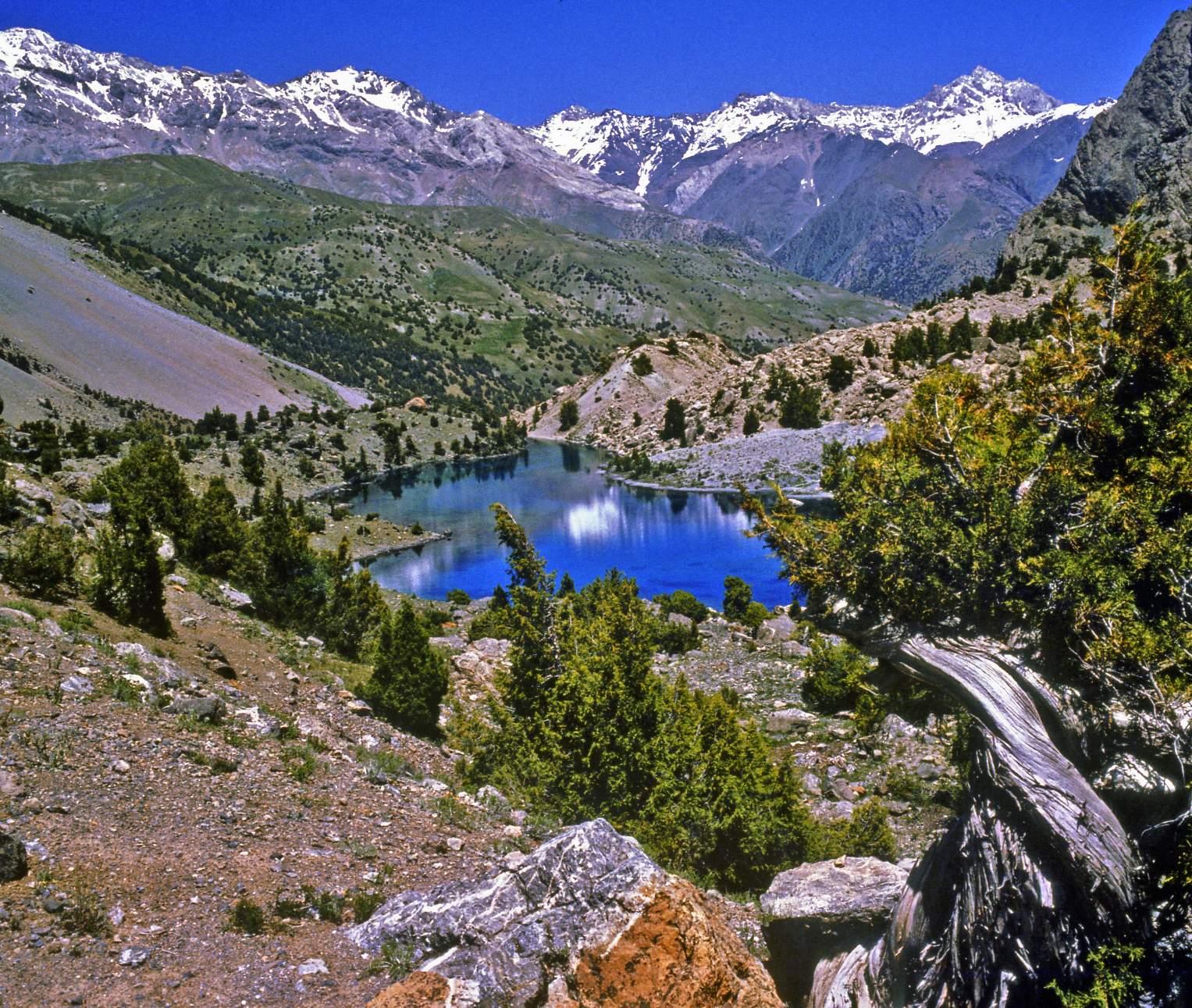 Central Asia, Region Pamir Alai, Fan Mountains